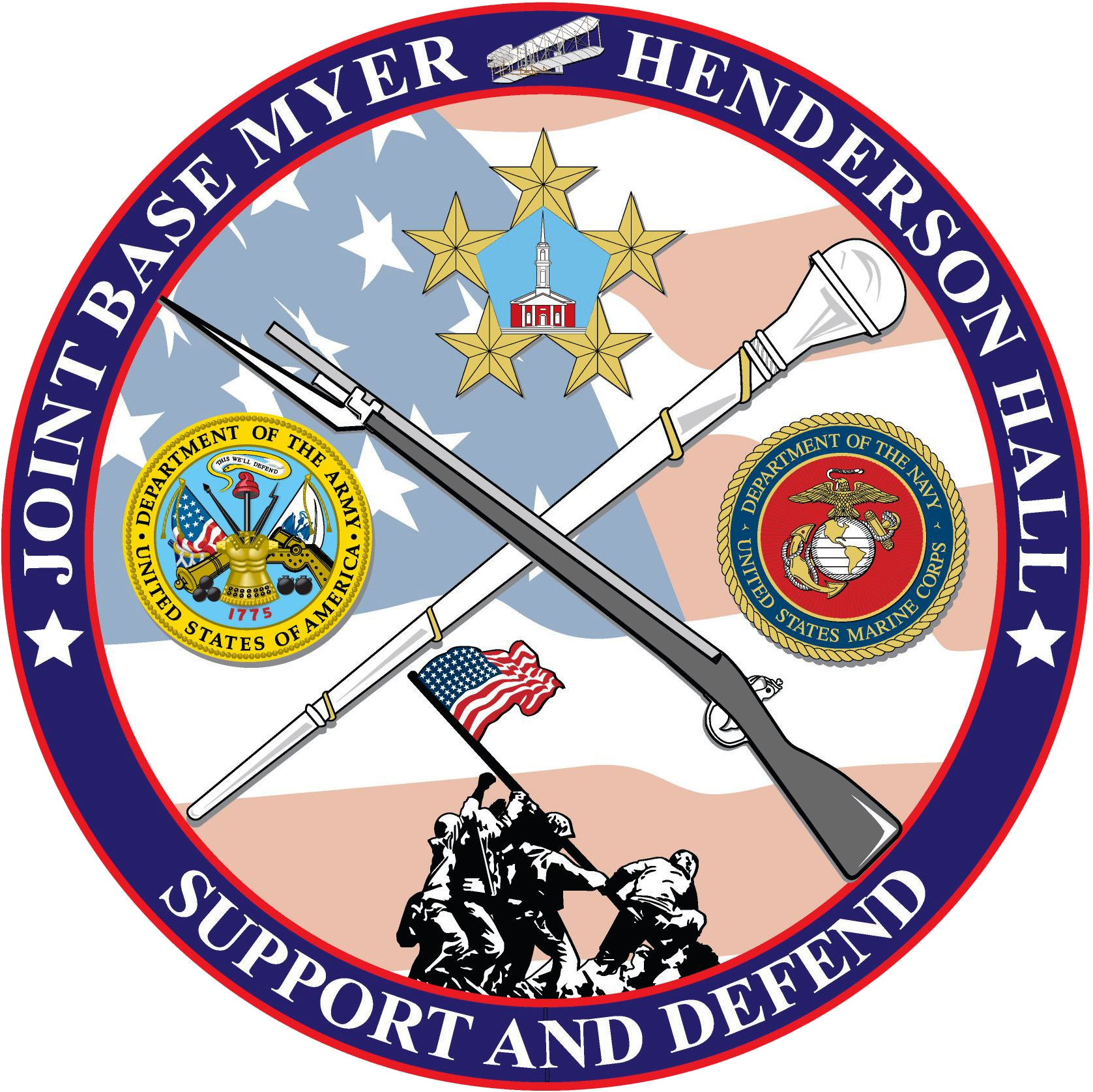 U.S. Department of Defense Joint Base Myer–Henderson Hall seal